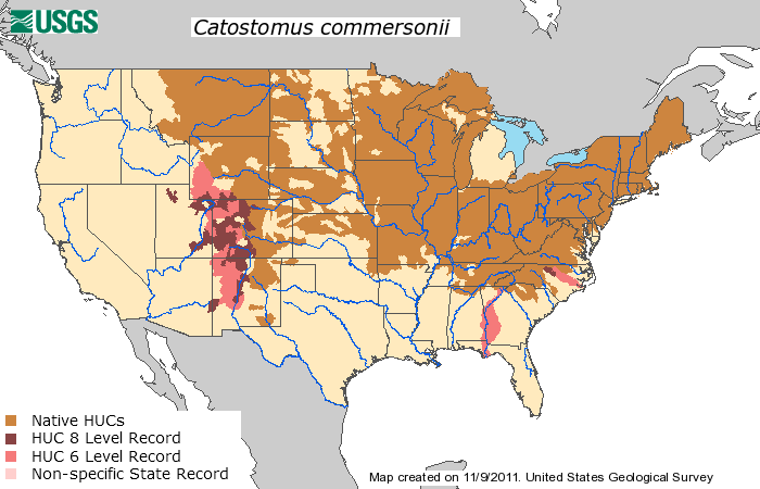 Known watershed locations of Catostomus commersonii